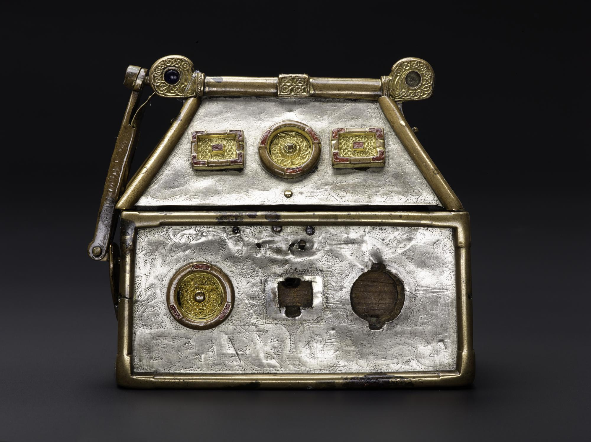 This file was uploaded as part of a partnership between Wikimedia UK and the National Museum of Scotland. This tag does not indicate the copyright status of the attached work. A normal copyright tag is still required. See Commons:Licensing. This work is free and may be used by anyone for any purpose. If you wish to use this content, you do not need to request permission as long as you follow any licensing requirements mentioned on this page.